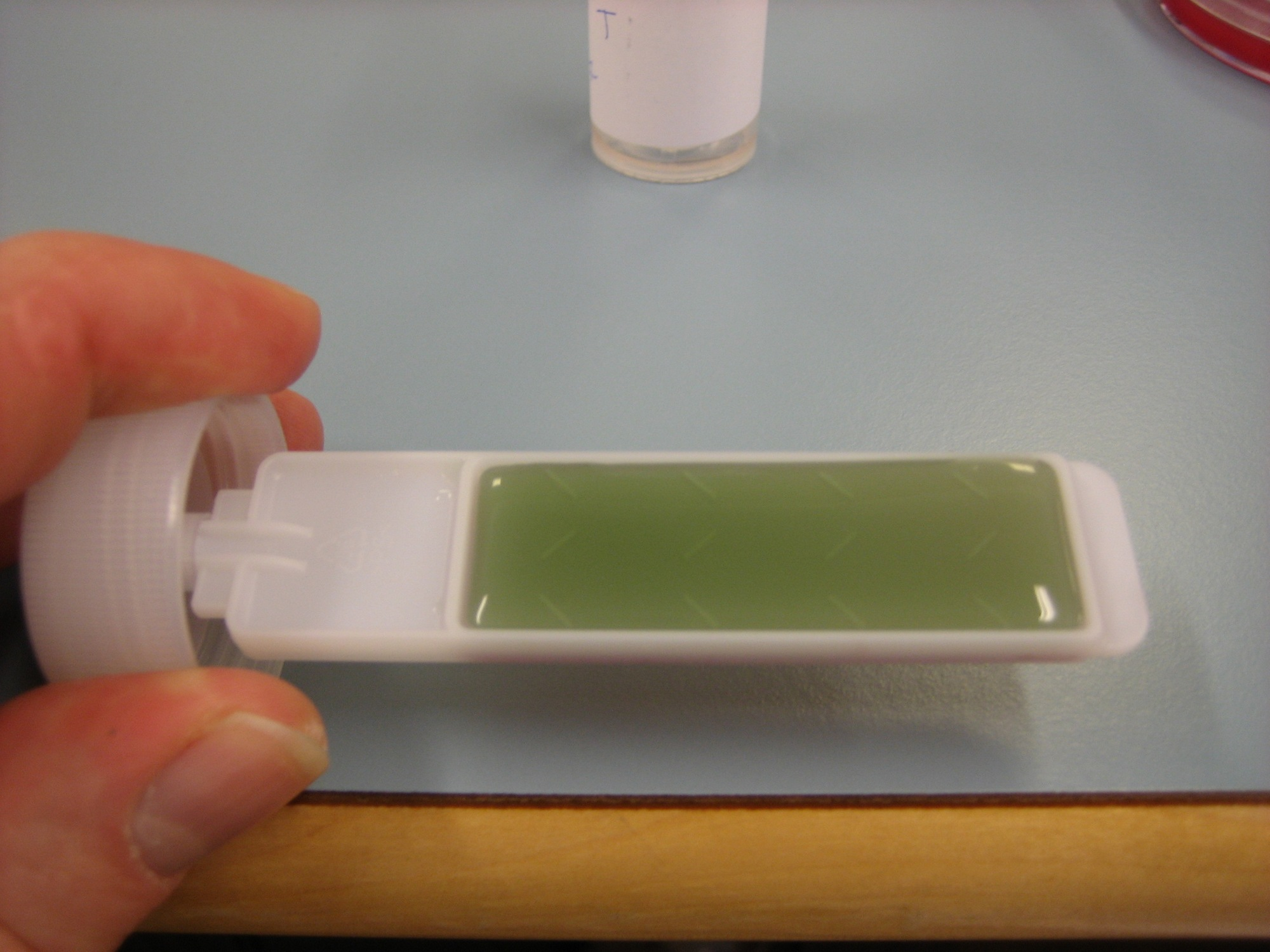 A clear CLED agar plate after cultivation showing no microbial growth in an urine sample. The agar plate was immersed in an urine sample and kept in an incubator for 24 hours.